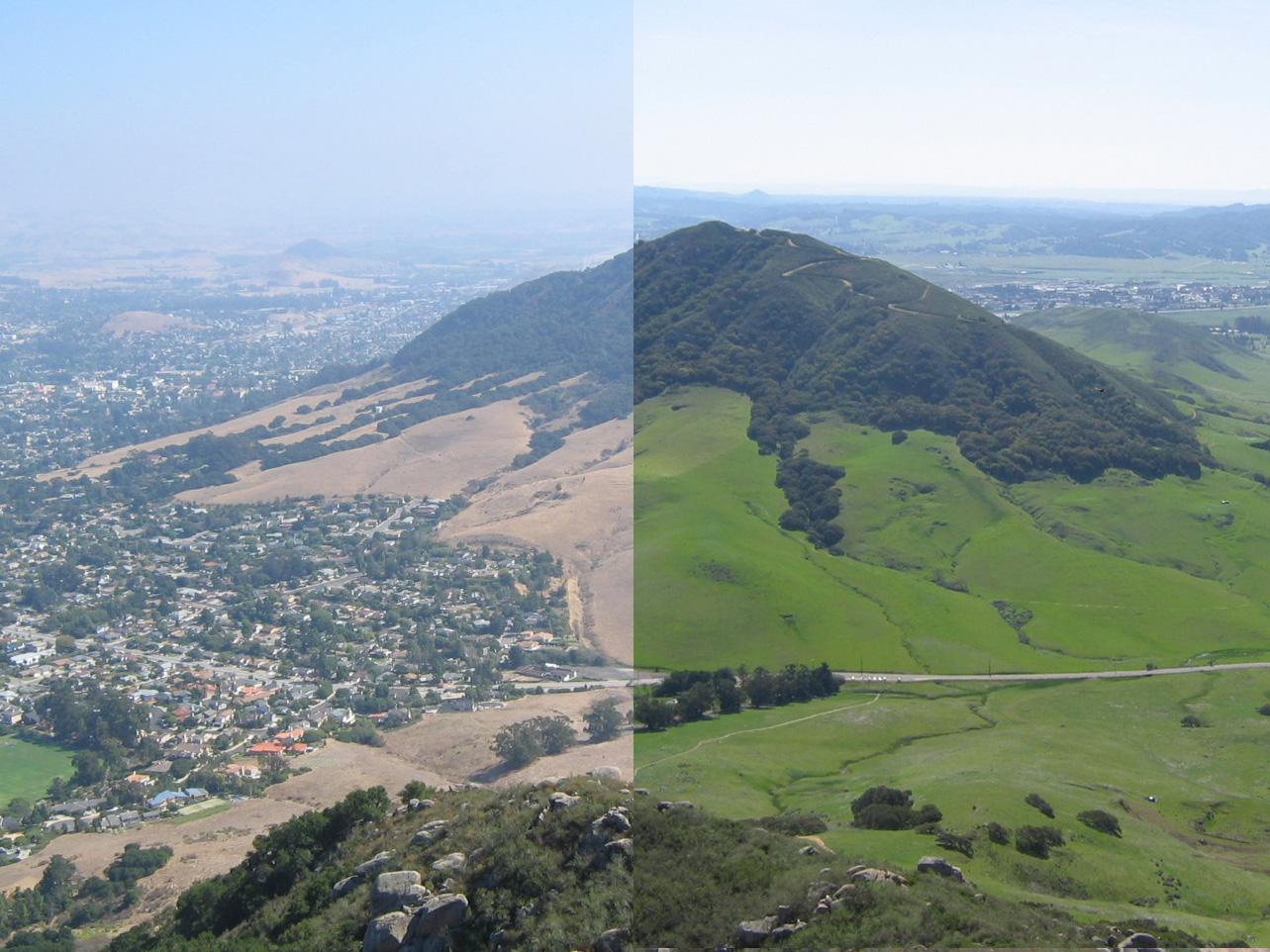 San Luis Obispo's San Luis Mountain as seen from Bishop Peak. A montage of two photos taken in September 2006 and March 2007 by Leif Arne Storset.